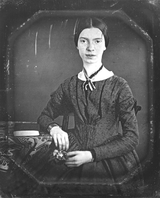 Daguerreotype of the poet Emily Dickinson, taken circa 1848. (Original version.) From the Todd-Bingham Picture Collection and Family Papers, Yale University Manuscripts & Archives Digital Images Database, Yale University, New Haven, Connecticut.